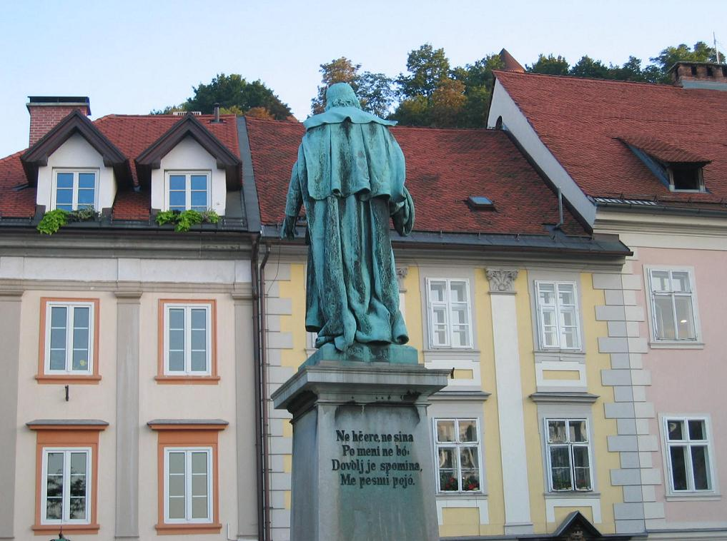 Valentin Vodnik (Slovene poet and Catholic priest) monument (back side, with a poem) - at Vodnik Square in Ljubljana. Translation: Neither a son nor a daughter will live after me; enough of remembrance, I am sung by (my) songs.